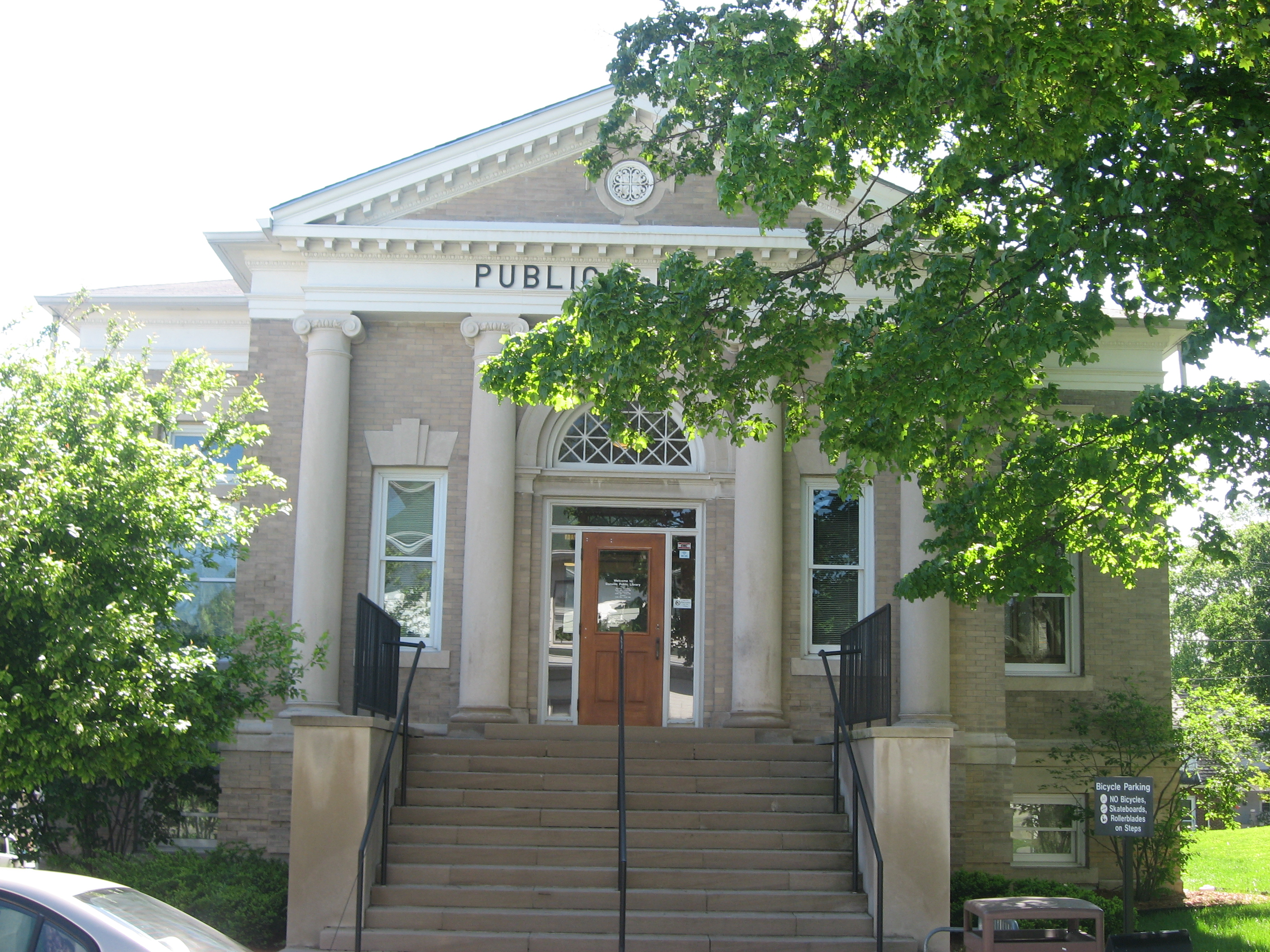 Front of the Danville Carnegie Library, located at 101 S. Indiana Street in Danville, Indiana, United States. Built in 1903, it is part of the Danville Courthouse Square Historic District, a historic district that is listed on the National Register of Historic Places.